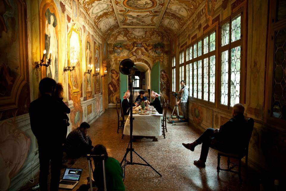 Music video shooting in the "Sala Affrescata"